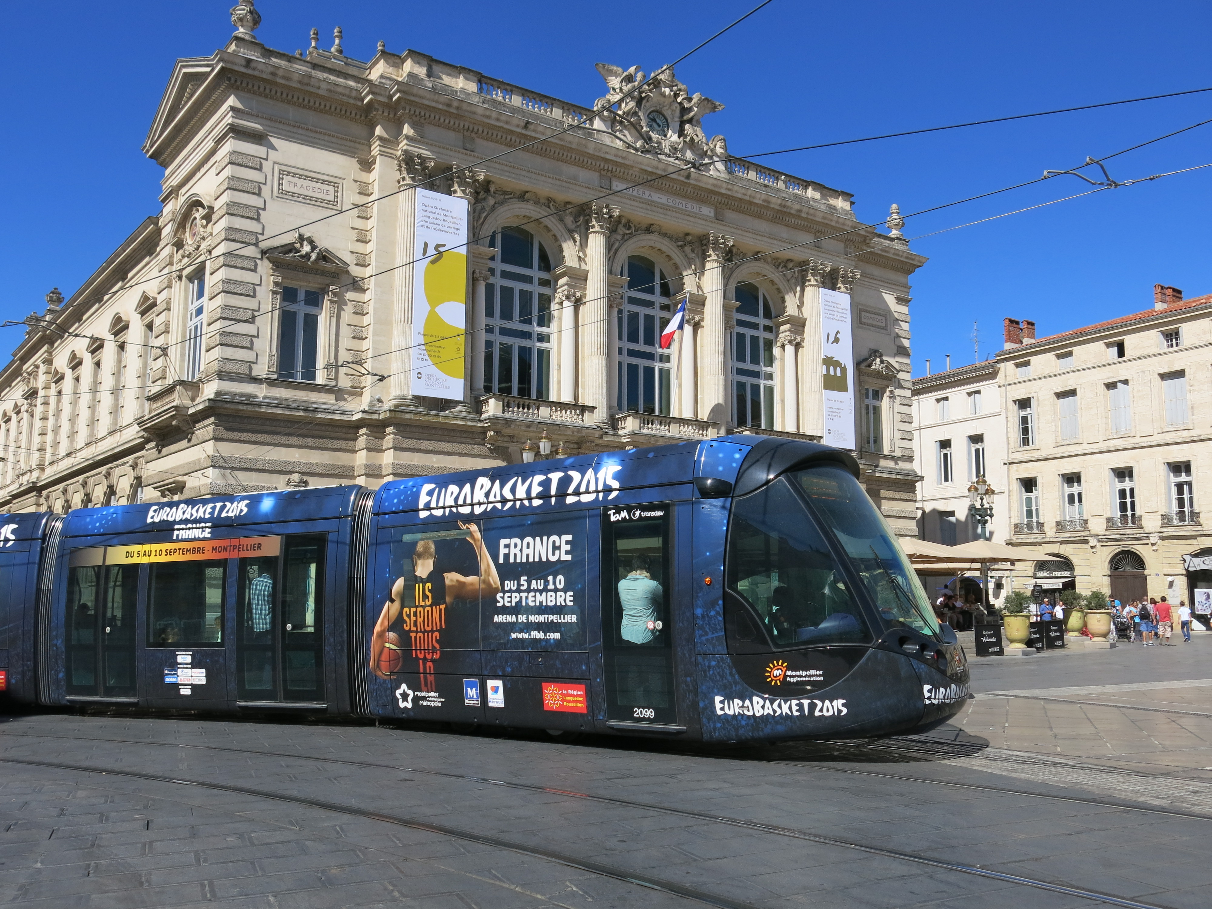 Tram painted to promote the Eurobasket event in front of the Opera house in Montpellier.